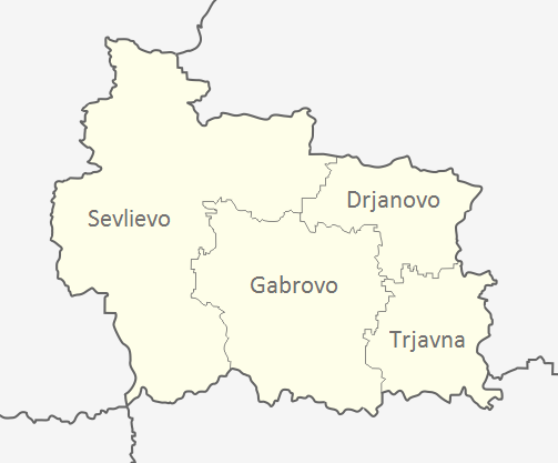 Map of Gabrovo Province in HR